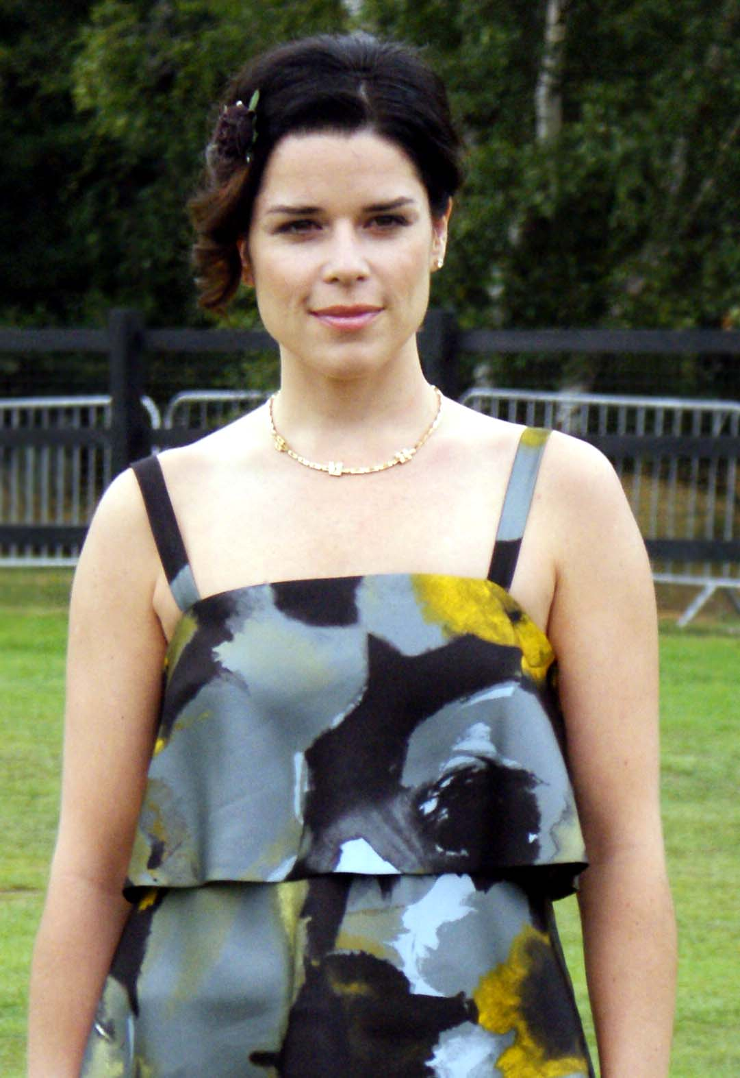 Actress Neve Campbell